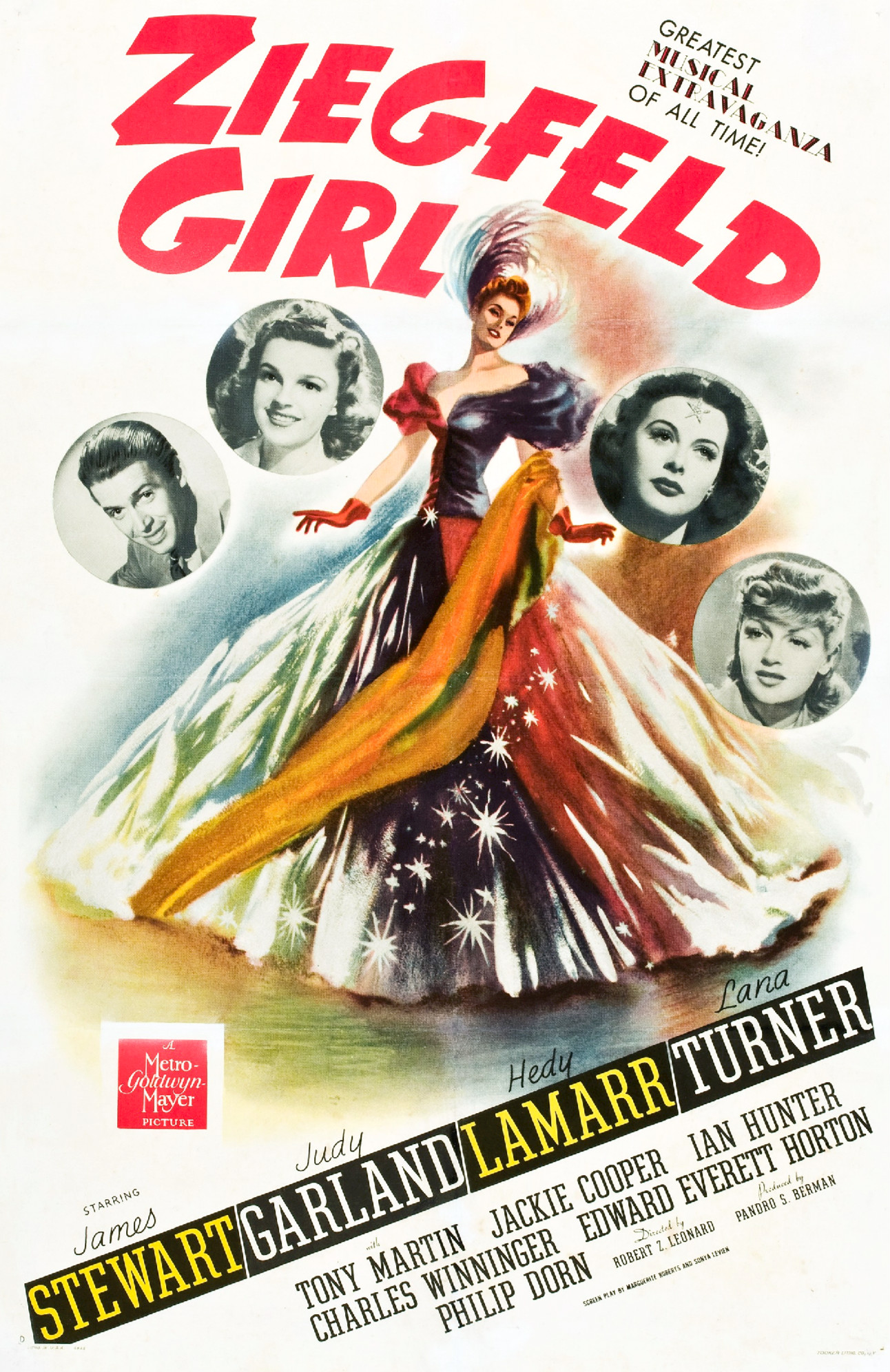 Poster for the 1941 film Ziegfeld Girl. The poster has no copyright marks. At bottom left is "D" (for poster version "D"), Litho in USA 5A25. At bottom right is Tooker Litho Co, NY-they printed the poster.